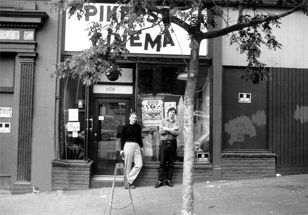 The Pike St. Cinema opened in 1992 and closed in 1995. It was owned and operated by Dennis Nyback